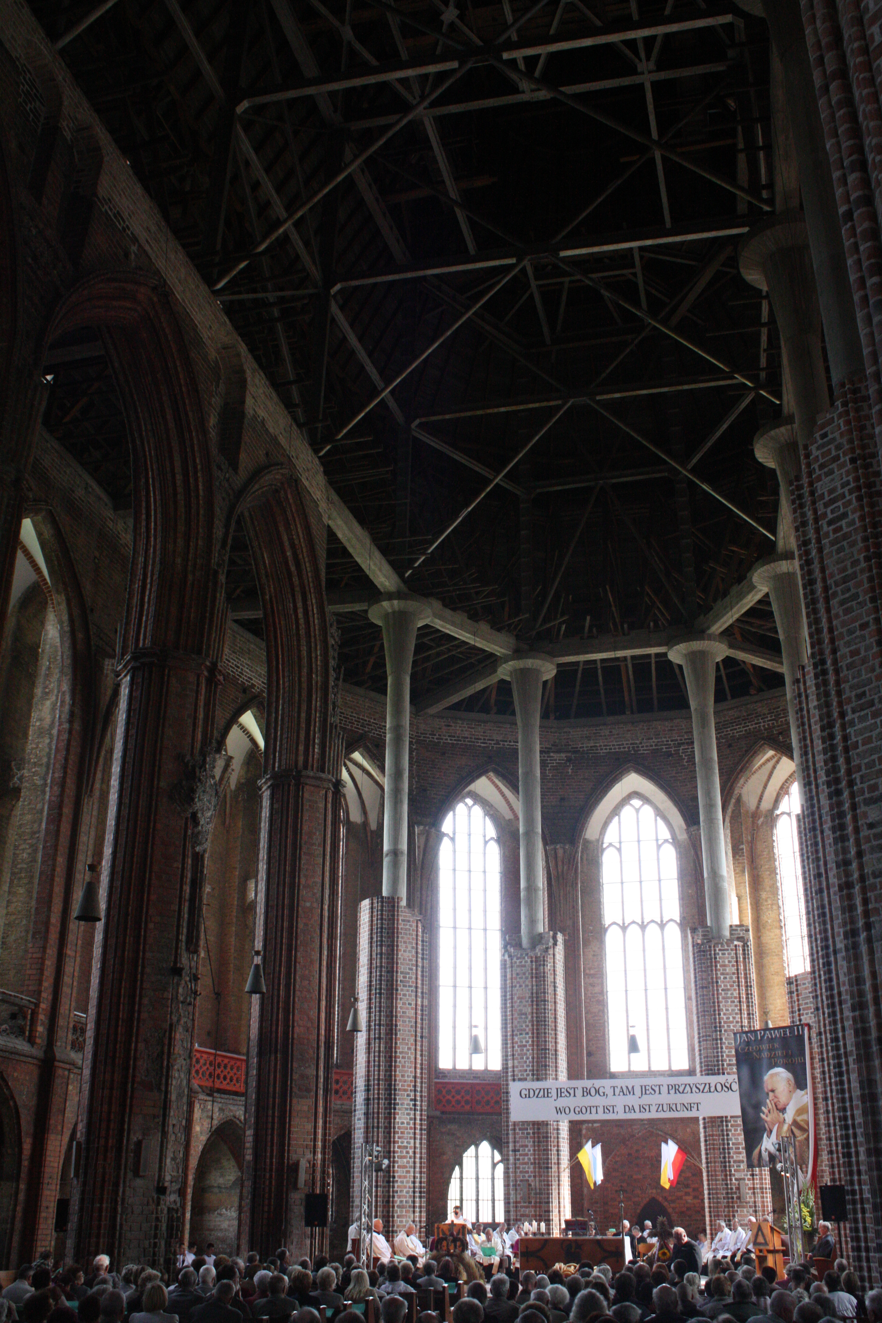 Kościół Mariacki w Chojnie- wnętrze